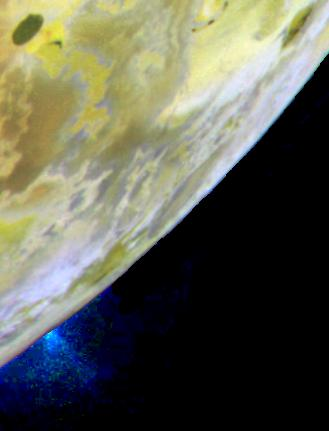 A plume of gas and particles is ejected some 100 kilometers (about 60 miles) above the surface of Jupiter's volcanic moon Io in this color image, recently taken by NASA¹s Galileo spacecraft. The plume is erupting from near the location of a plume first observed by the Voyager spacecraft in 1979 and named Masubi. However, during the course of the Galileo tour of Jupiter and its moons, a plume has appeared at different locations within the Masubi region. This color image is the same as the previously released false color mosaic of Io, but with special processing to enhance the visibility of the plume. The plume appears blue because of the way small particles in the plume scatter light. North is to the top of the picture, and the Sun illuminates the surface from almost directly behind the spacecraft. The resolution is 1.3 kilometers (0.8 miles) per picture element. The images were taken on July 3, 1999 at a distance of about 130,000 kilometers (81,000 miles) by the Galileo¹s camera.